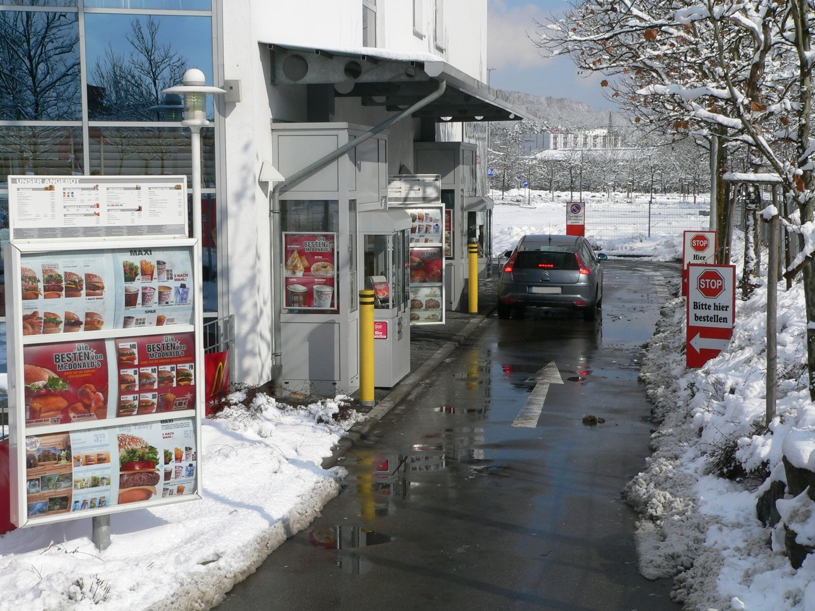 Description: McDrive in Sindelfingen, Germany. Date: 2005-03-05 photographer: JuergenG Wikipedia account